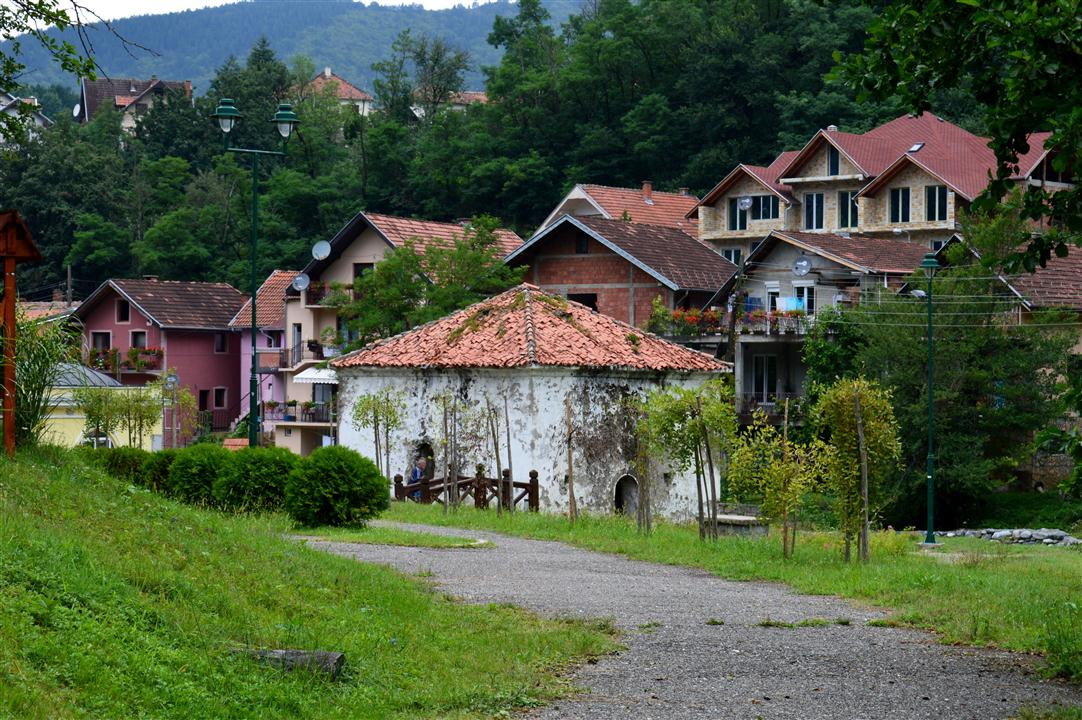 Raska Municipality - Jošanička Banja